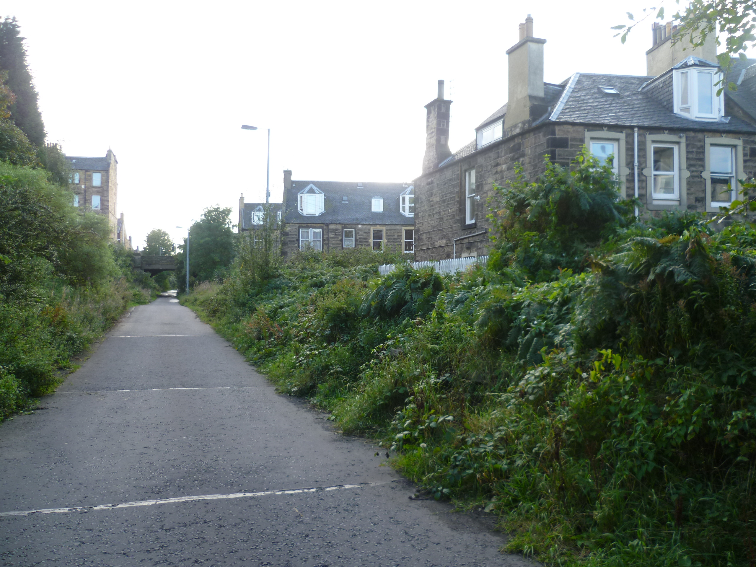 Site of Merchiston Station which closed in 1965. A platform is concealed by the vegetation on the right.